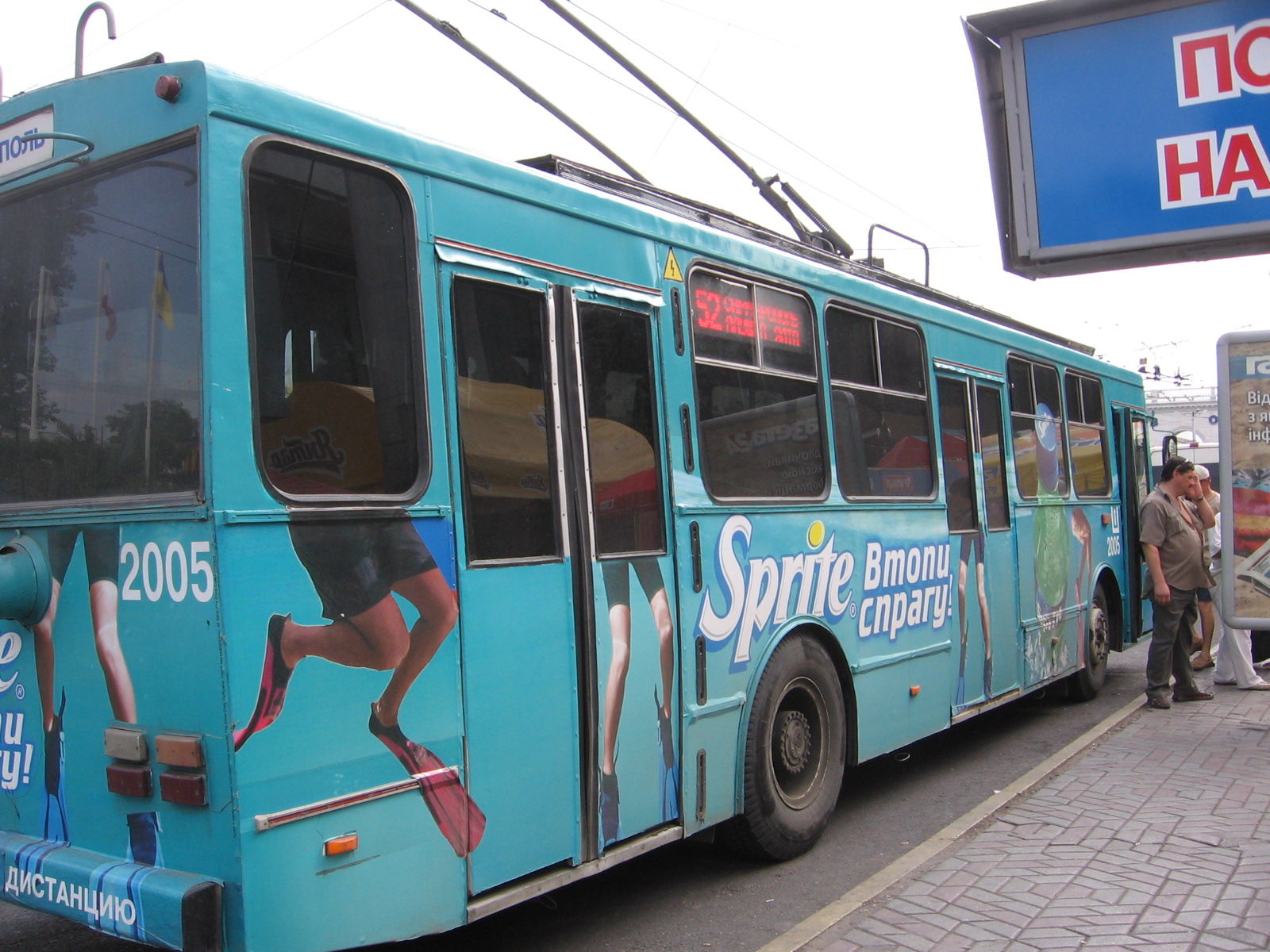 The 52 Simferopol - Alushta - Yalta inter-city trolleybus at its end station in Simferopol. Trolleybus model is Škoda 14Tr.